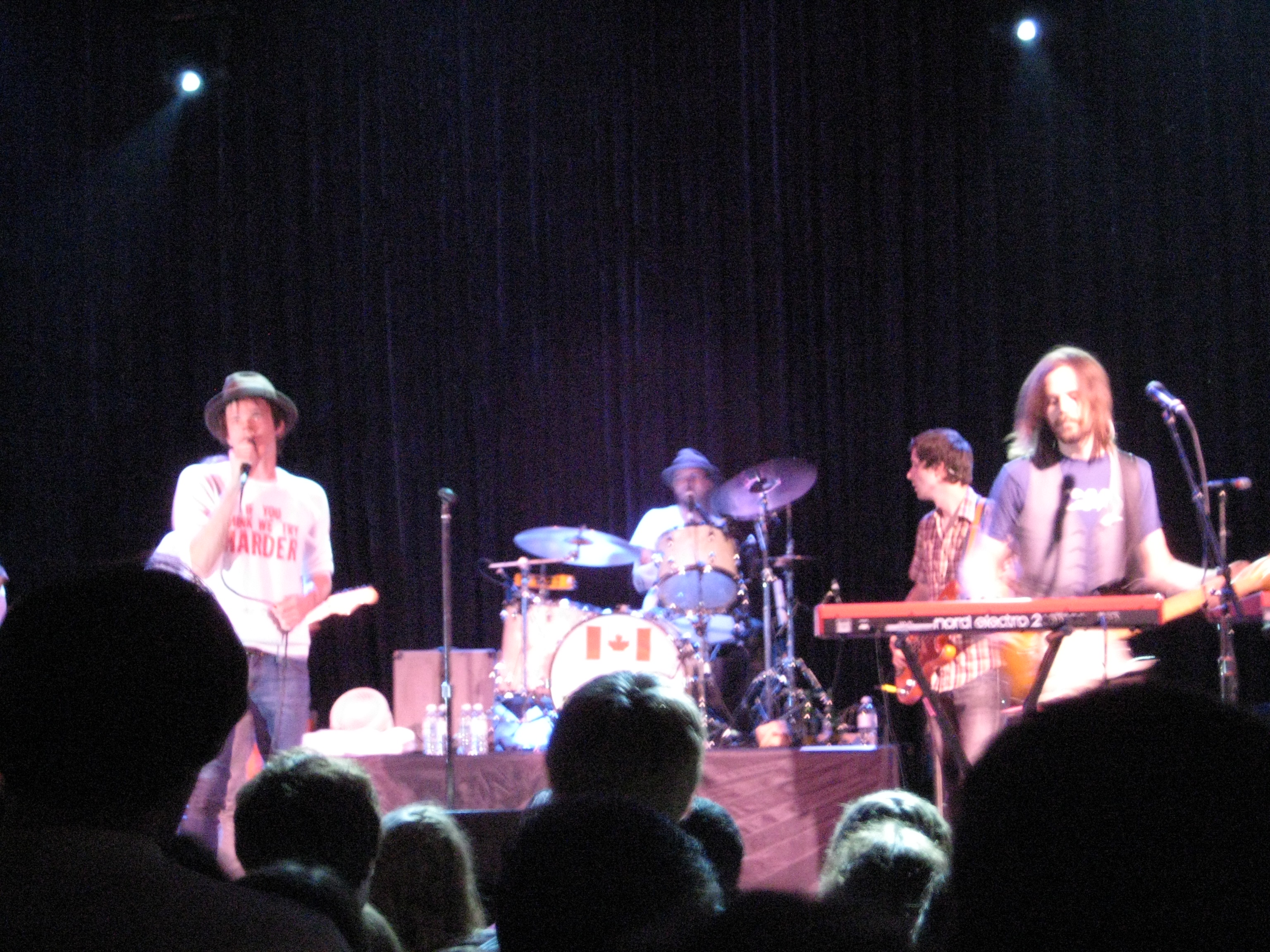 The Format in concert at The Opera House in Toronto